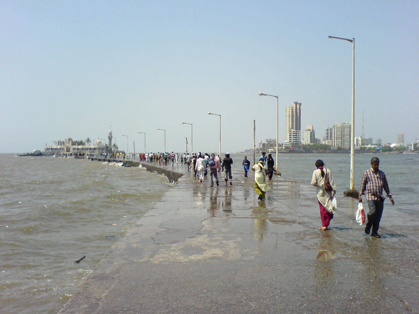 People walking out to Haji Ali Dargah along the causeway. Mumbai skyline in the background.